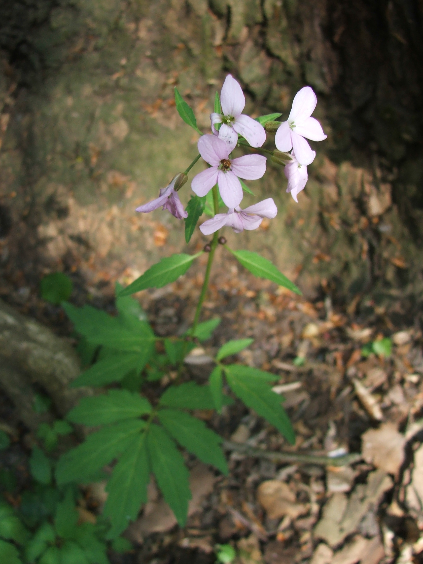 Dentaria bulbifera L. syn. Cardamine bulbifera (L.) Crantz MTA Botanic Garden, Vácrátót, Hungary.